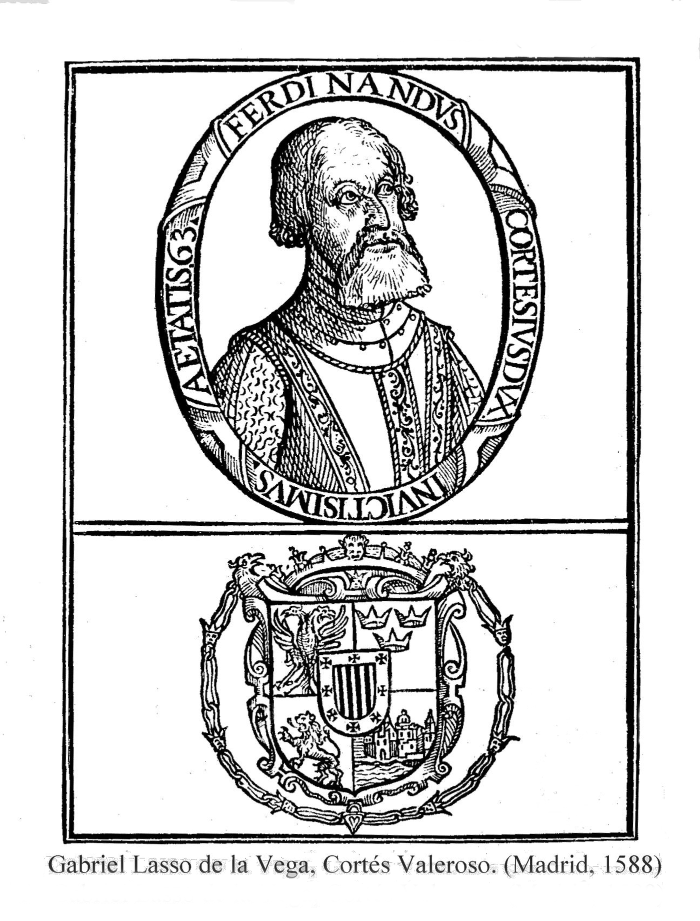 Crest presented to Hernando Cortes by Emperor Charles V